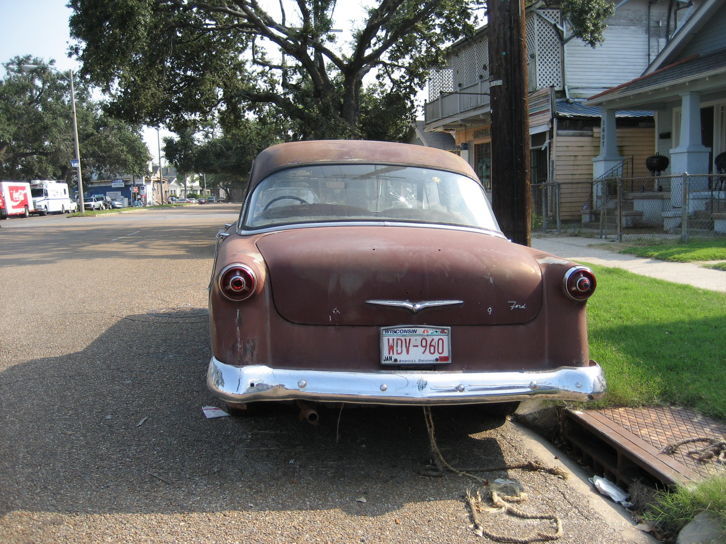 1954 Ford Mainline seen in Bayou St. John neighborhood of New Orleans.